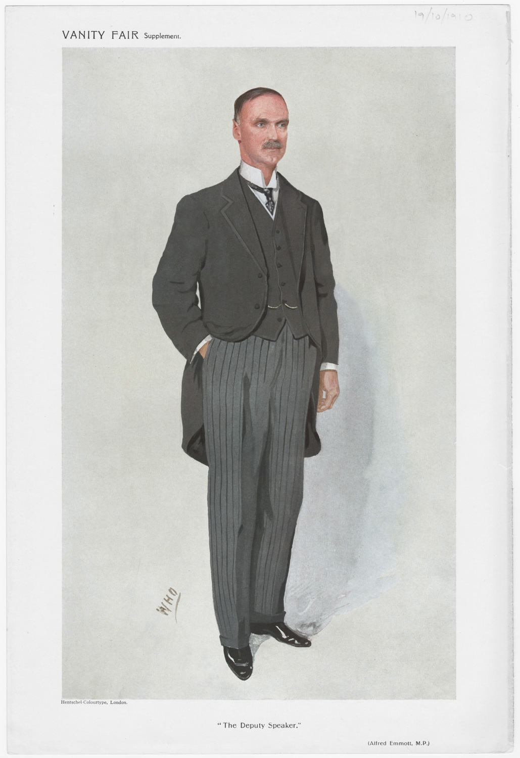 Portrait of Alfred Emmott, 1st Baron Emmott. Caption read "The Deputy Speaker".